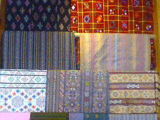 A collection of textiles from Bhutan